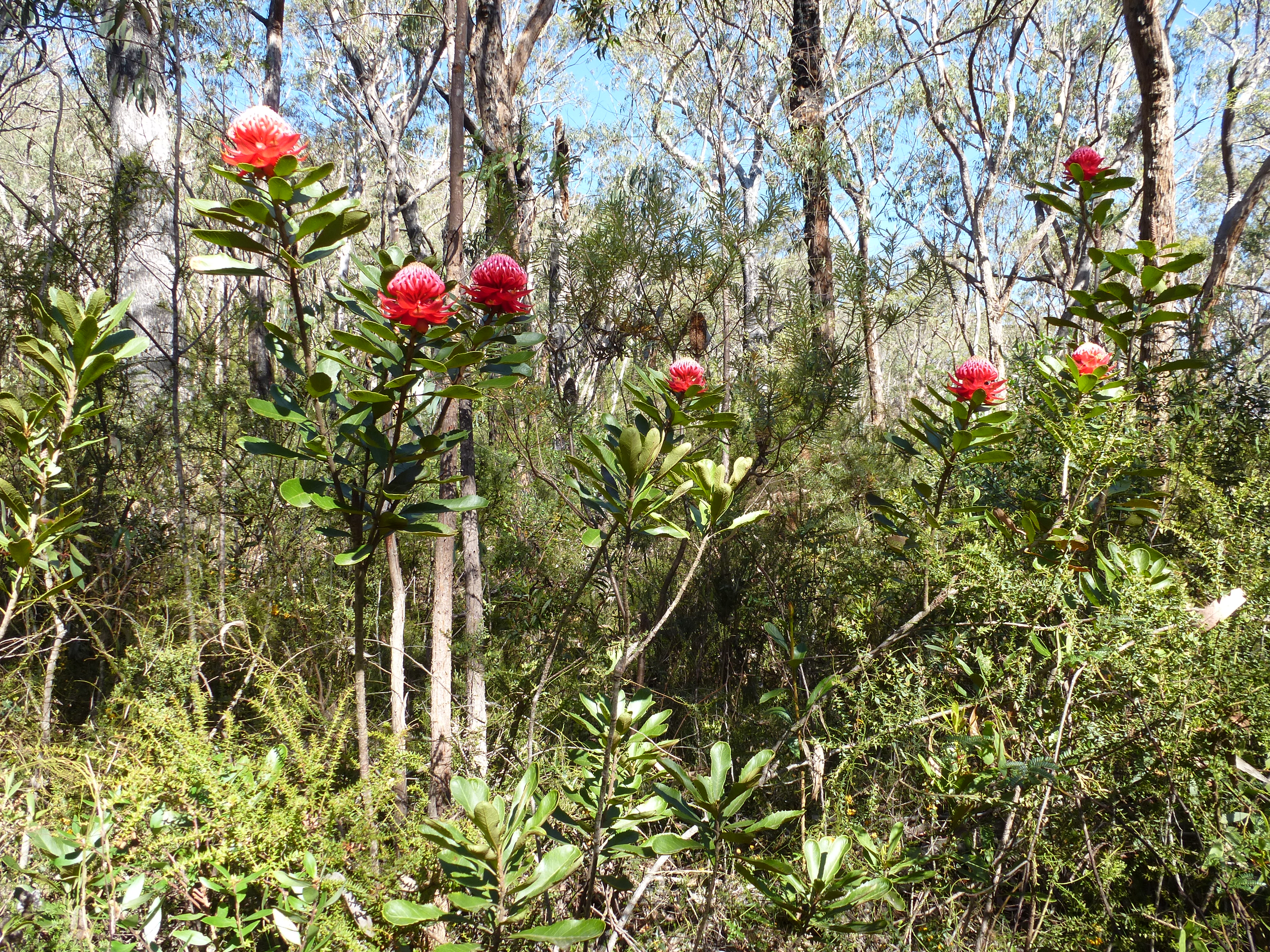 Telopea aspera near the Mulligans Hut Road